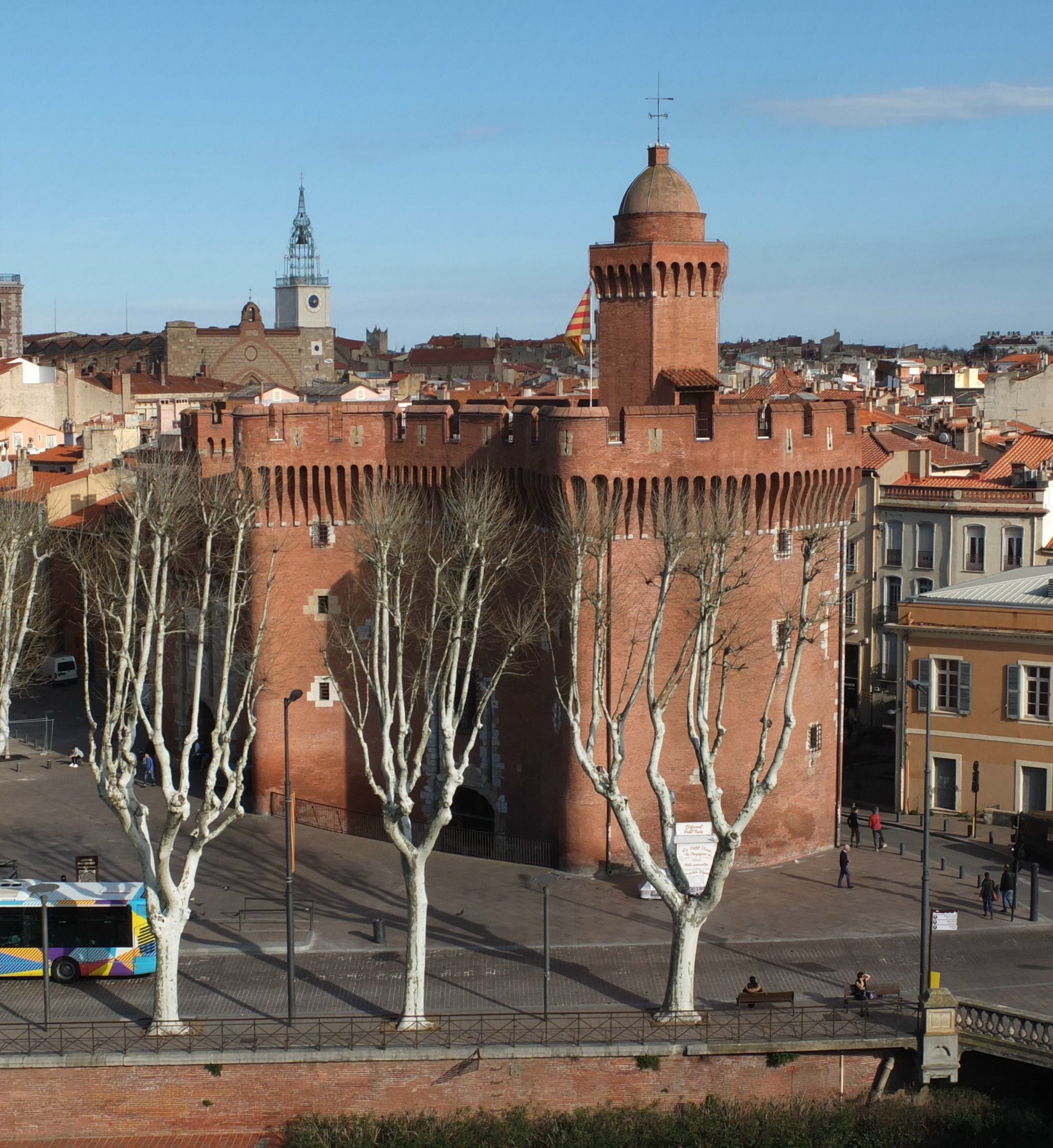 West facade of Castillet, Perpignan, France (view from Galerie Lafayette)